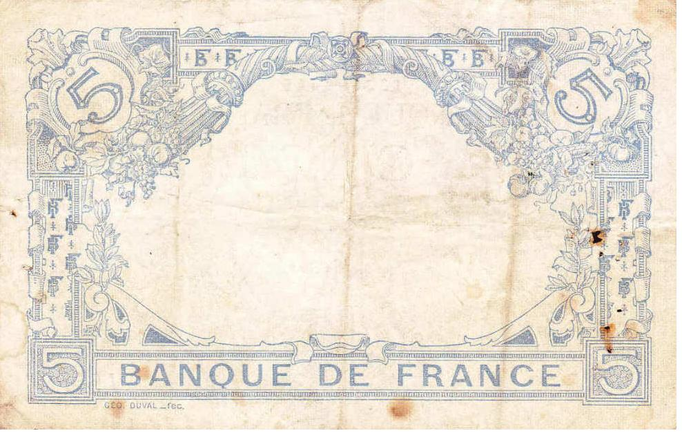 France 5 francs bleu 1915 inverse